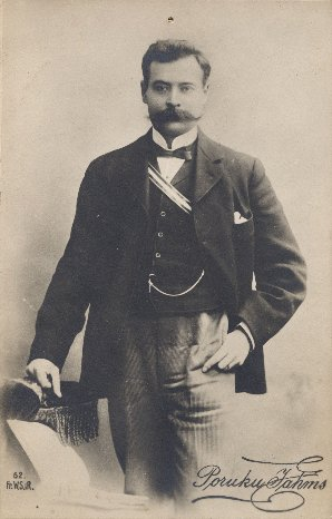 Jānis Poruks